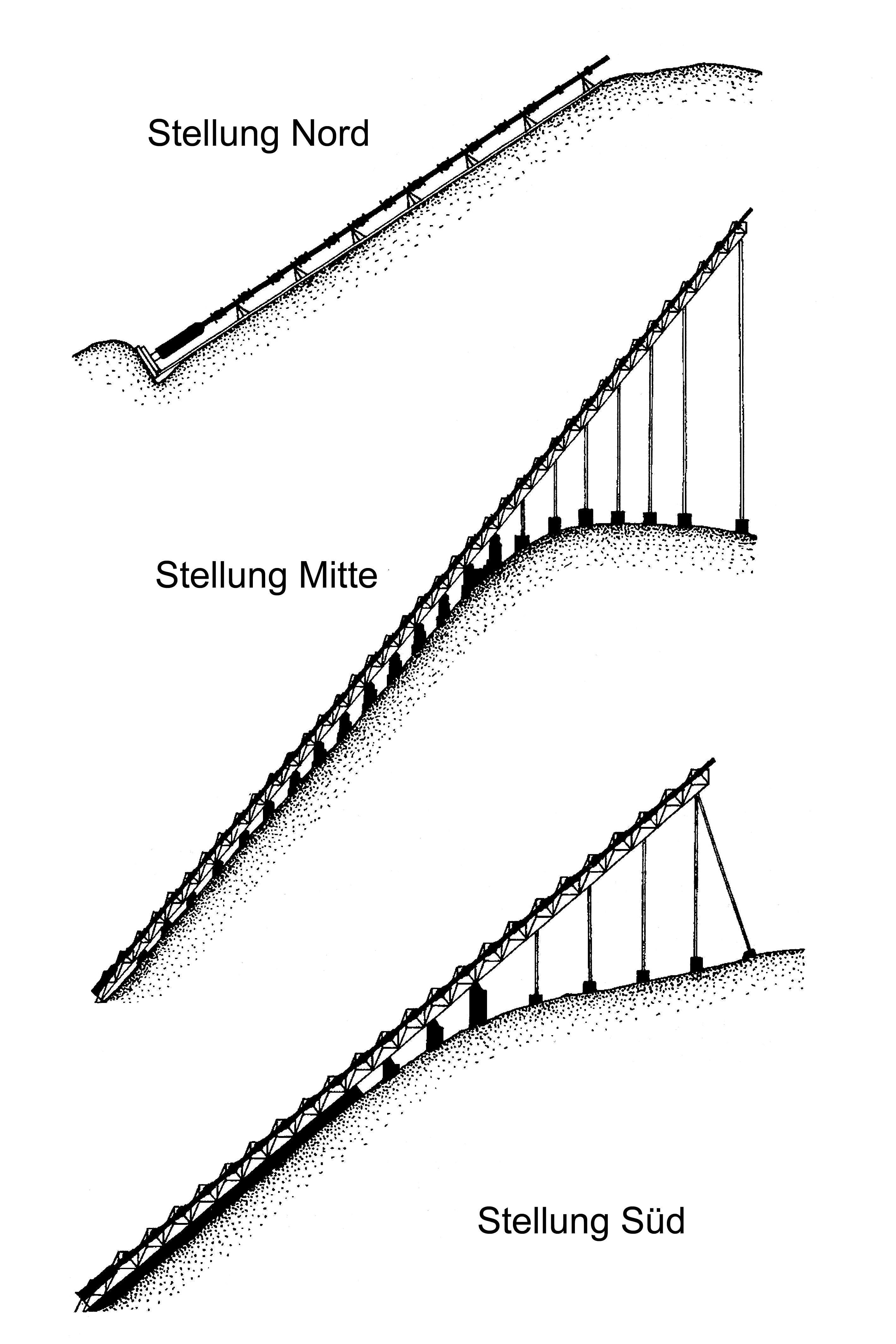 Sketch of the three V-3 test sites which has been installed at Laatziger Ablage (Zalesie) on Wolin, view from south to north; Farther Pomerania, Poland. The Sketch is an extract from Aleksander Piotr Laskowski's book Śladami niemieckich tajnych broni na wyspach Wolin i Uznam and shows the possible situation based on the author's research as per 2003. The canon positions are ordered, contrary to the original sketch from the top down geographically.